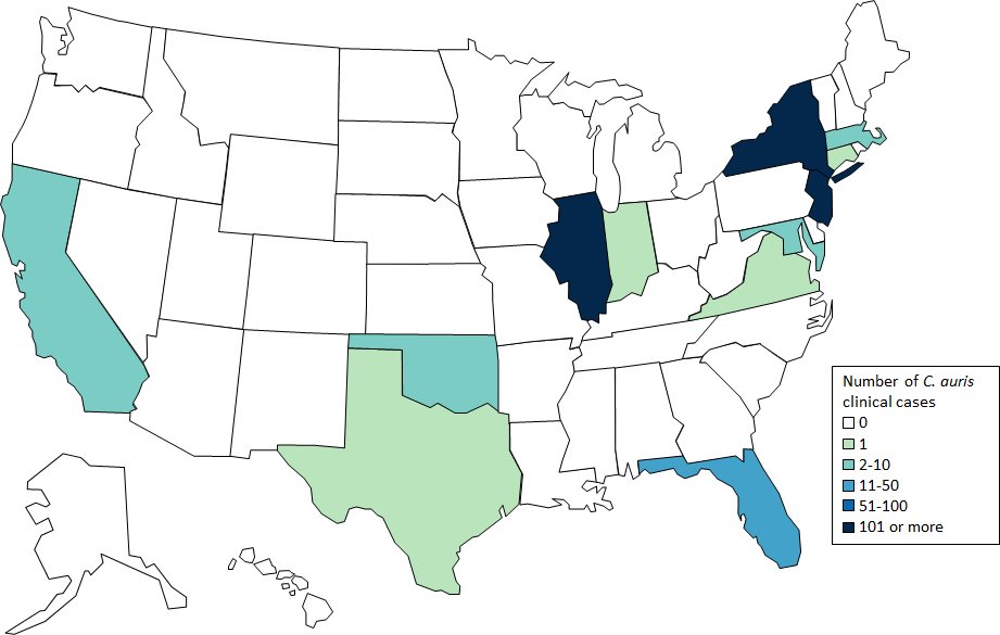 Candida auris cases reported prior to 2019 are categorized by the state where the specimen was collected. Most probable cases were identified when laboratories with current cases of C. auris reviewed past microbiology records for C. auris.